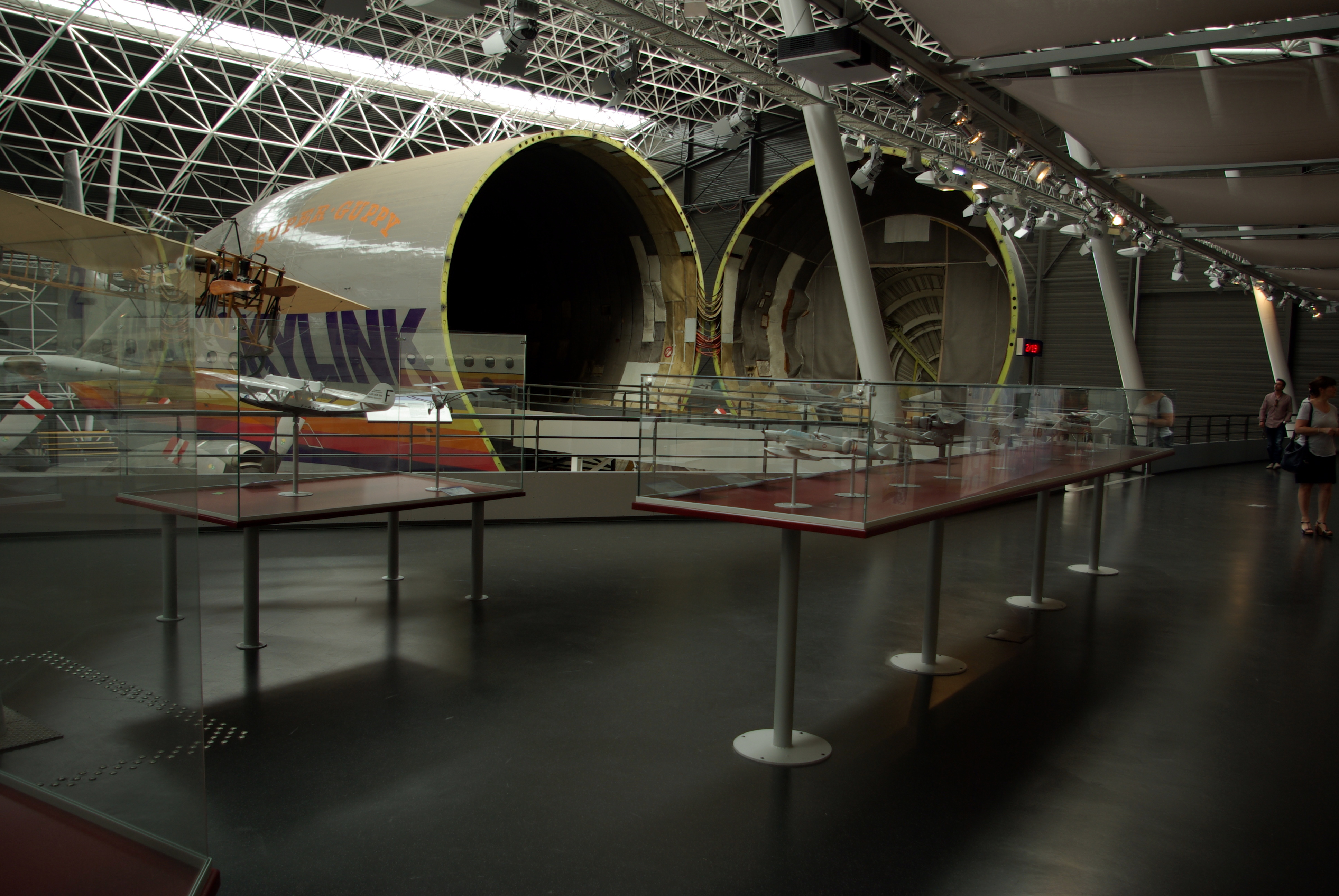 View of Aeroscopia from the balcony. At the foreground models of Dewoitine and Latécoère aircraft are displayed, in the background the Super Guppy F-BPPA.